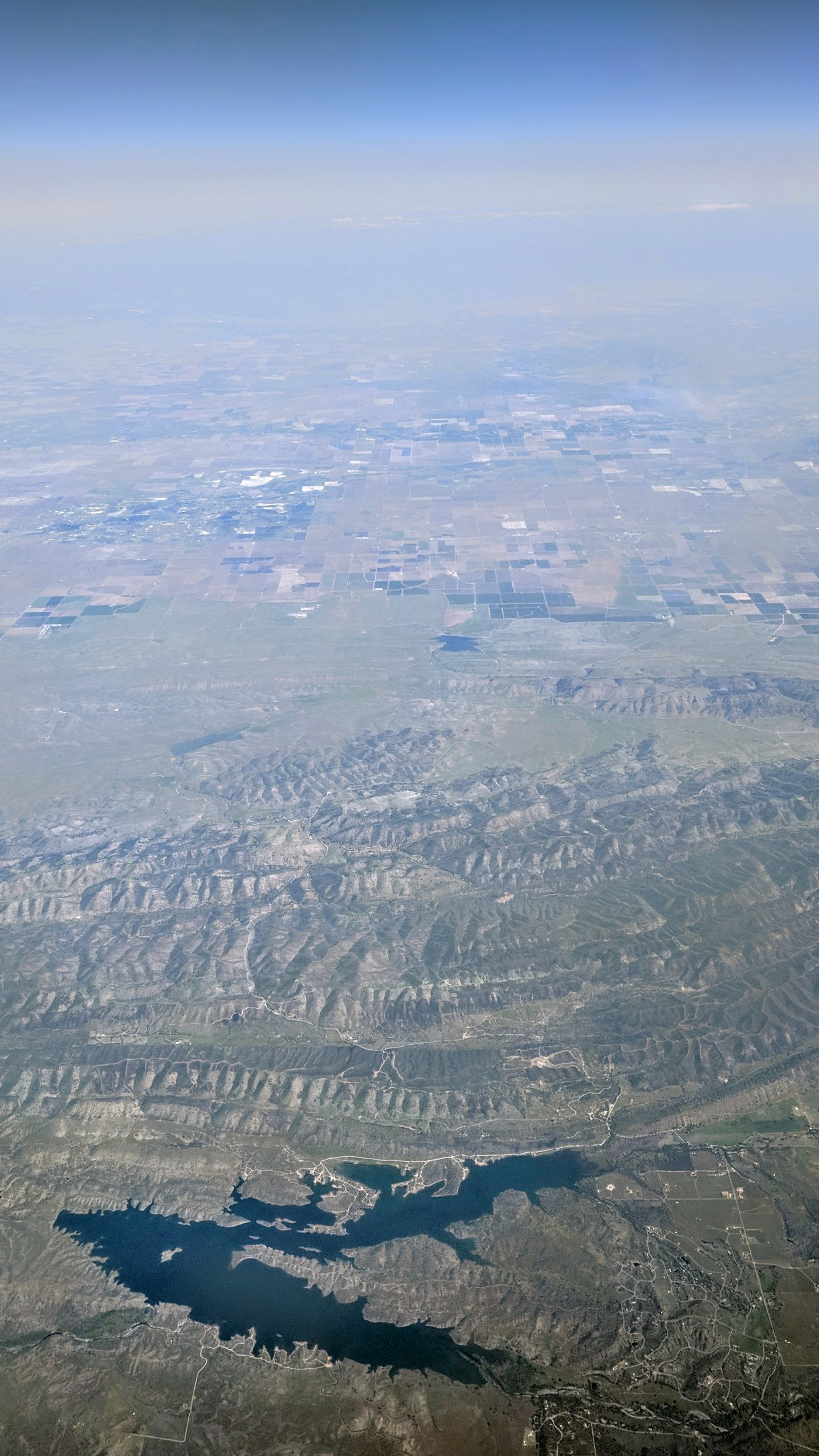 Aerial view of East Park Reservoir, part of the Orland Project in the Sacramento valley, California